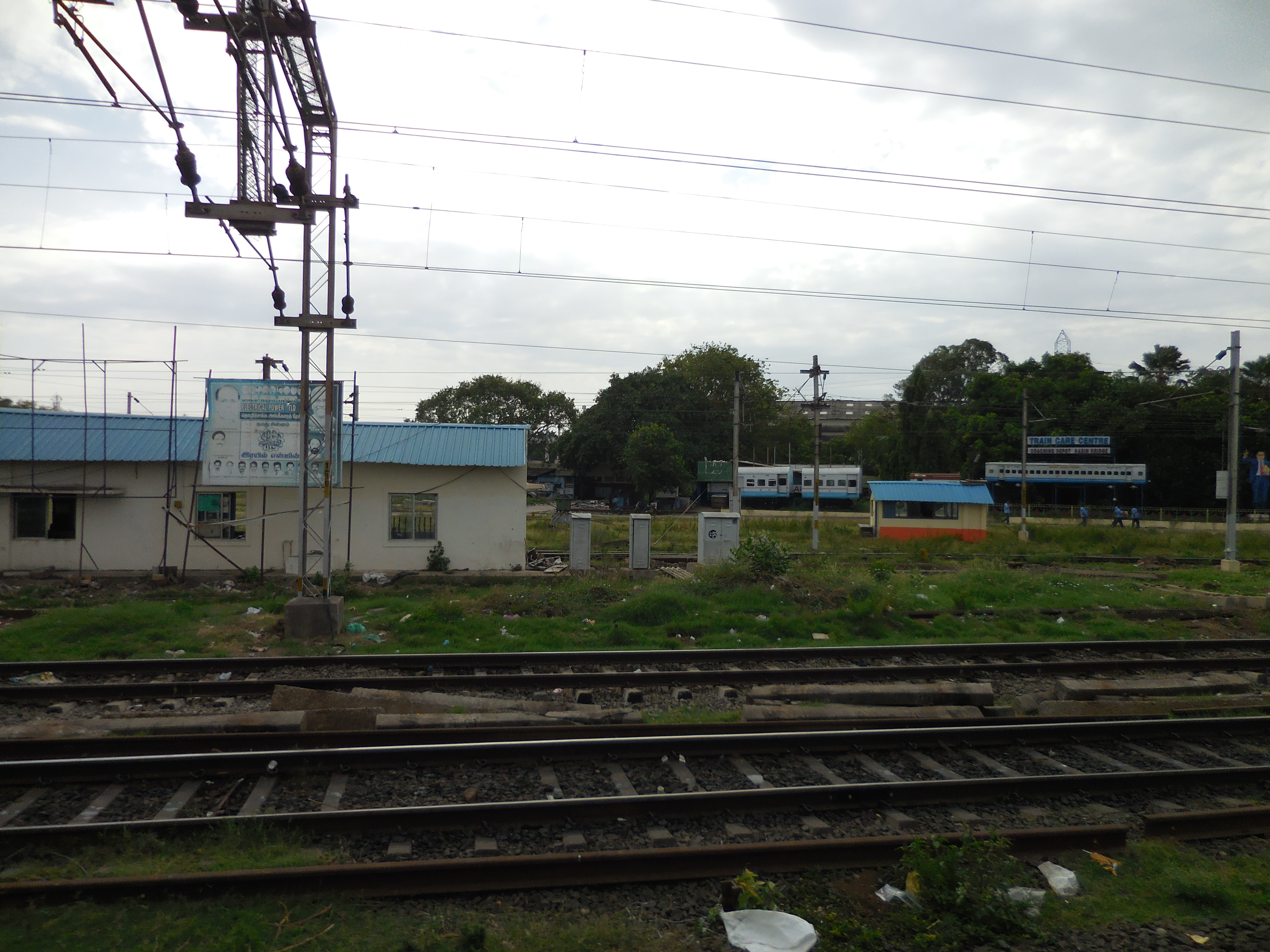 Train Care Centre at Chennai Central, taken on 5 July 2014, at 8:40 am